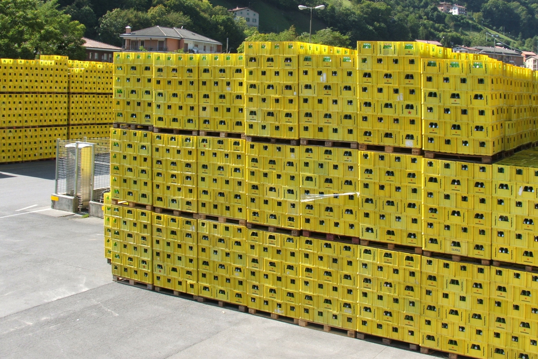 Bottle crates Sanpellegrino mineral water